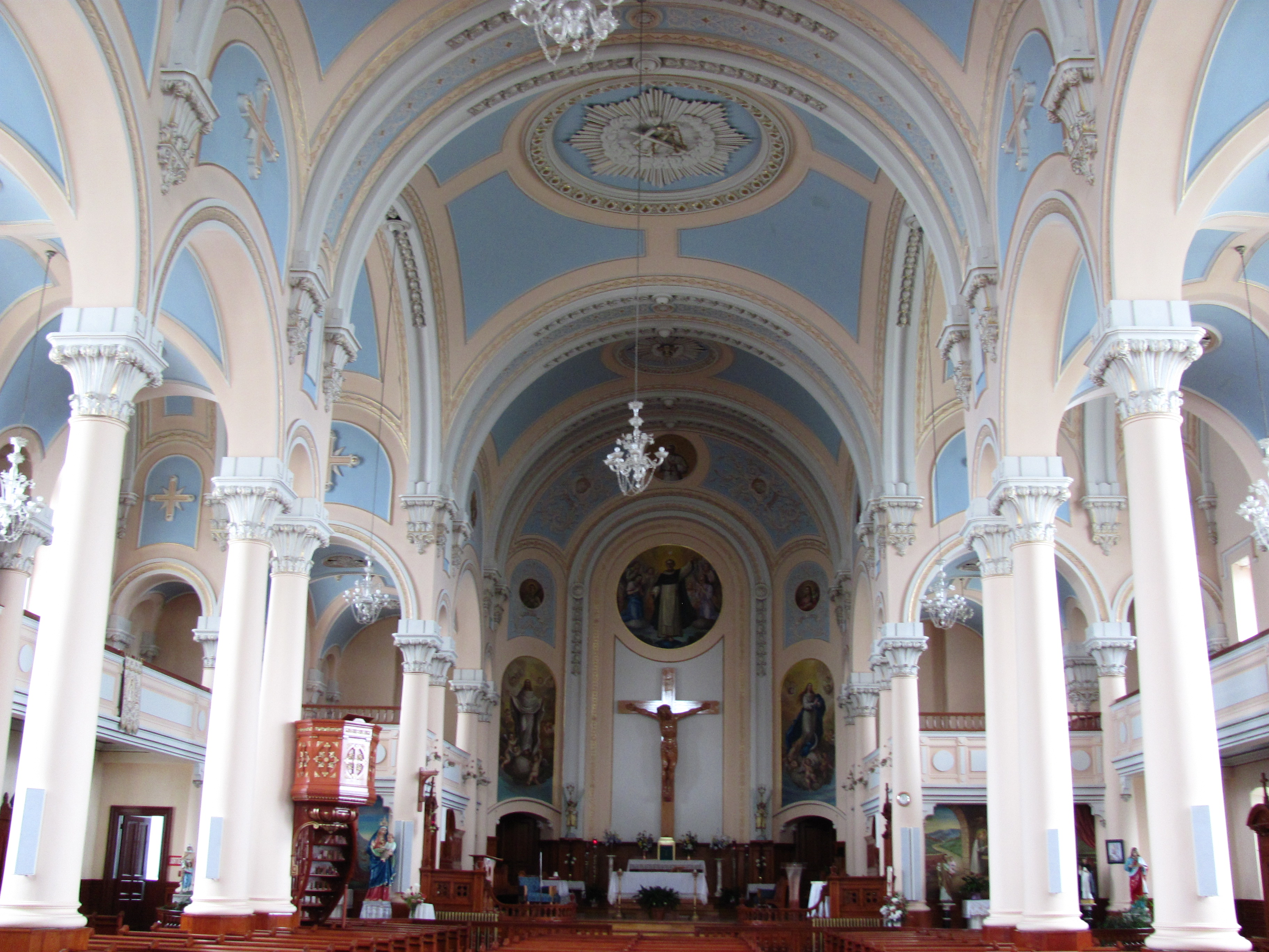 Catholic church St. Dominique, Newport, Gaspésie, Québec, Canada